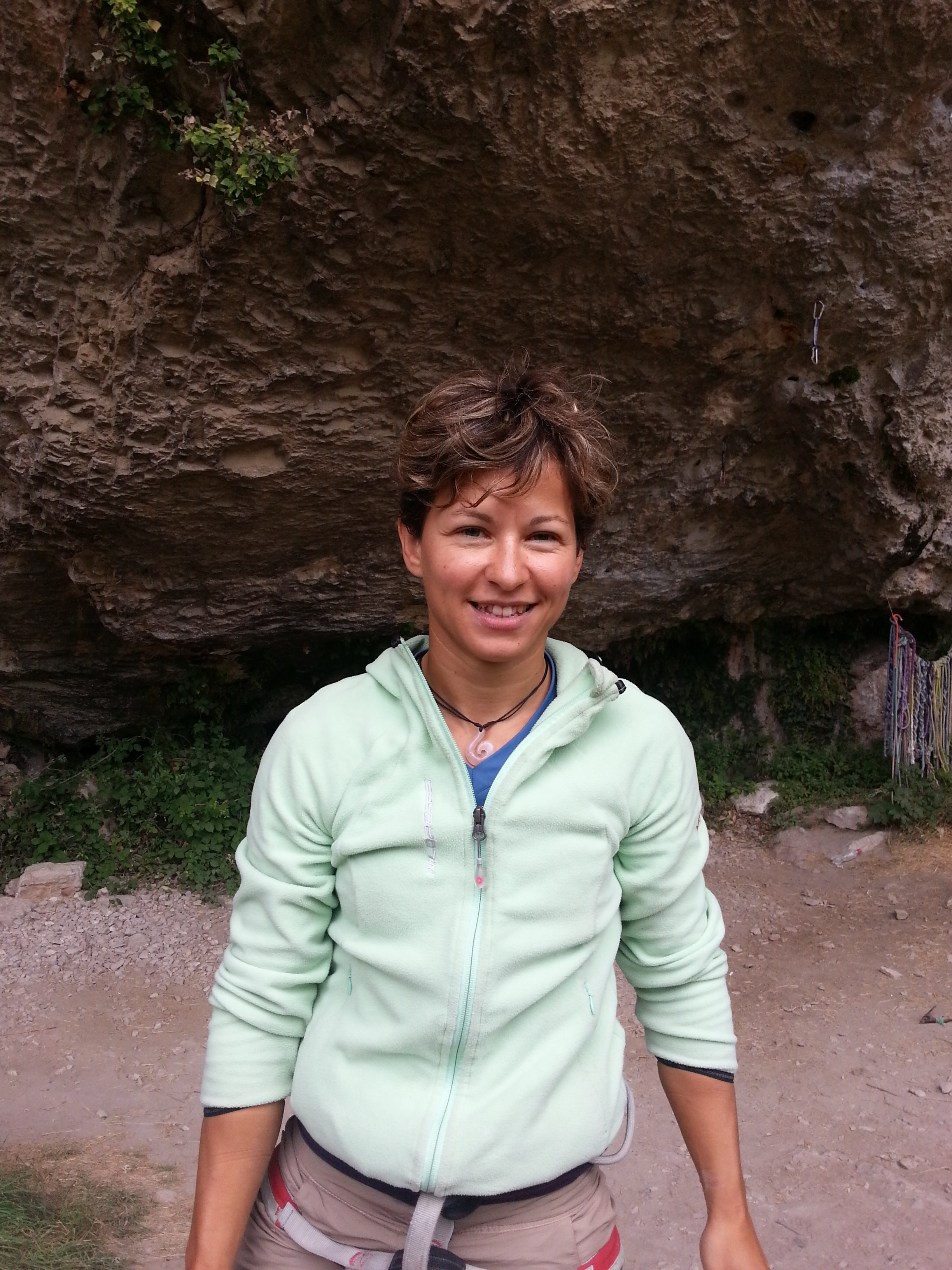 Muriel Sarkany à Déversée dans les Gorges du Loup